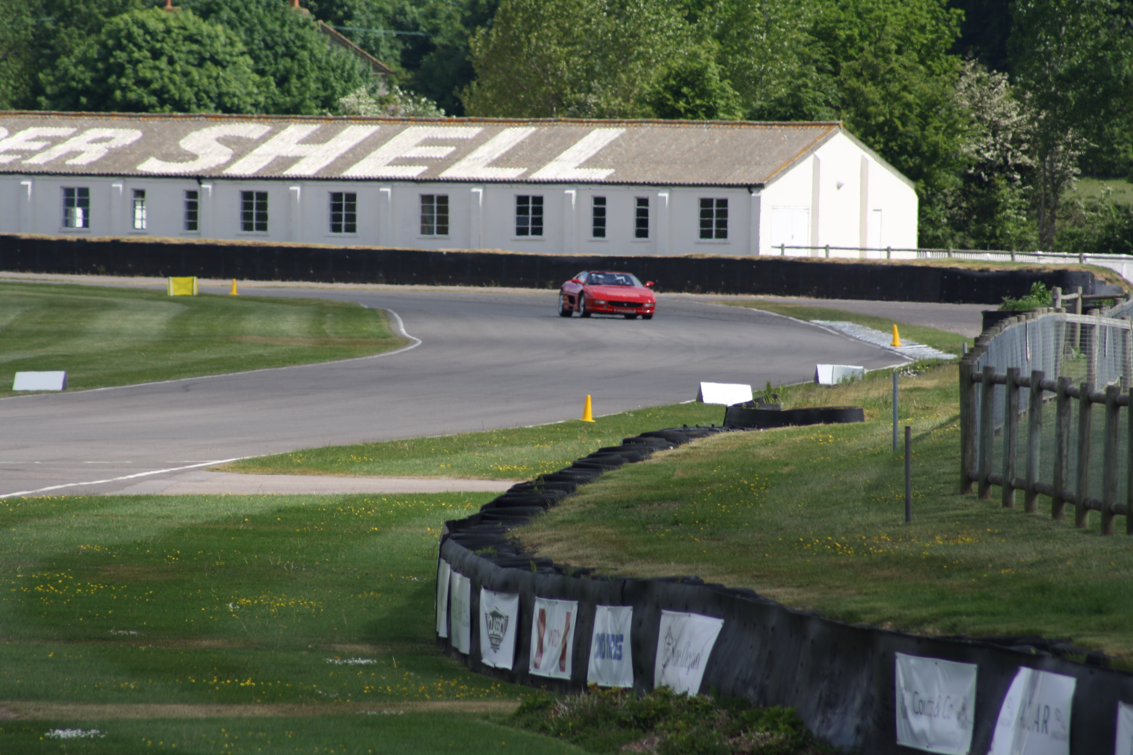 Part of Goodwood Circuit in Sussex.